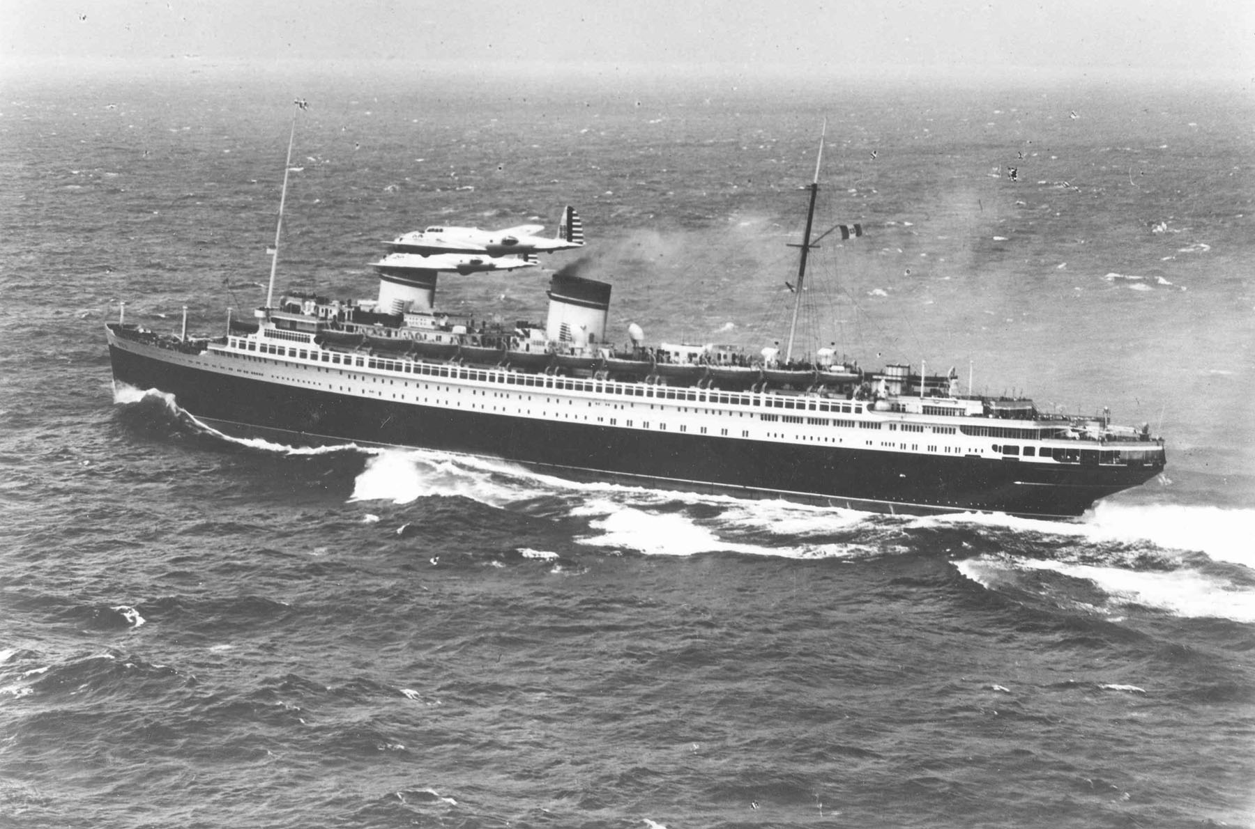 Boeing Y1B-17 fly-by near the Italian liner Rex, about 800 miles east of New York City. (U.S. Air Force photo)